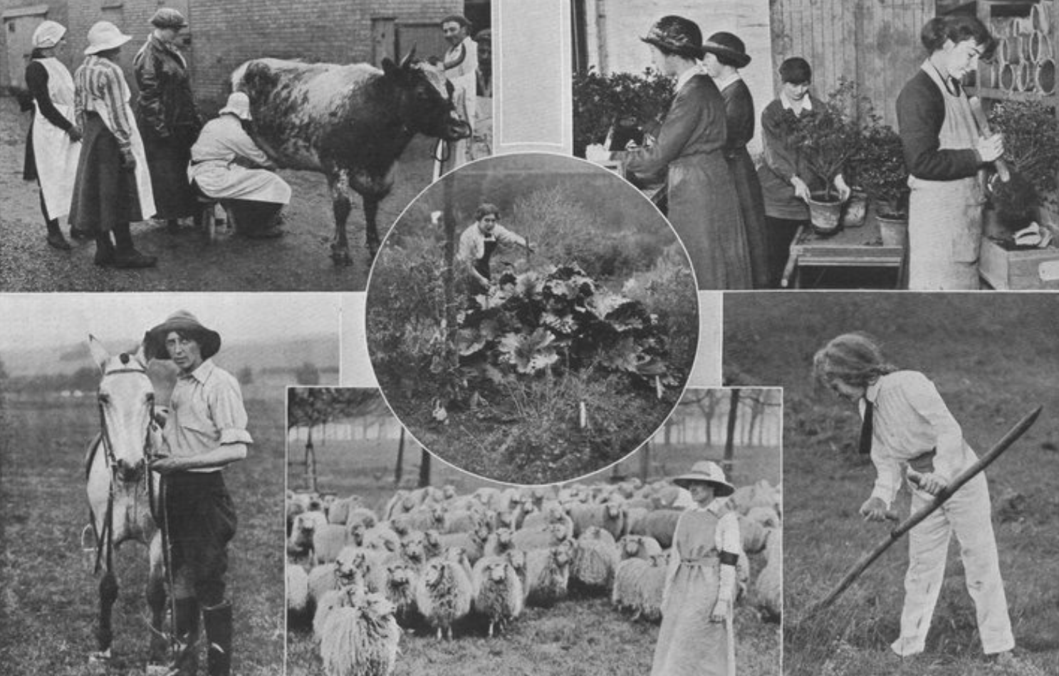 the National Land Council trained women during the first world war to work on the land. See Mary Adelaide Broadhurst from World Digital Library Women of the Empire in War Time: In Honour of their Great Devotion ... The pictures are credited to various companies but the photographers are anonymous. From the 1916 Canadian book - Women of the Empire in War Time: In Honour of their Great Devotion and Self-Sacrifice